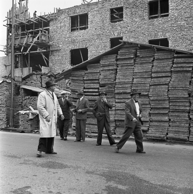 Building a house in Kisakylä Käpylä for the Helsinki Olympics 1952.